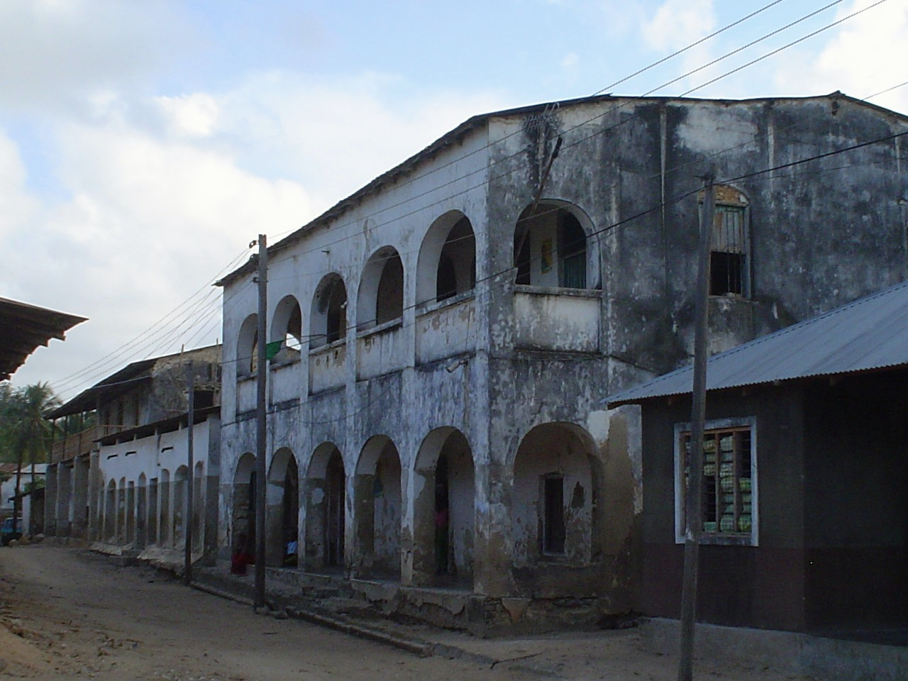 Quiet street in downtown Mikindani, Tanzania